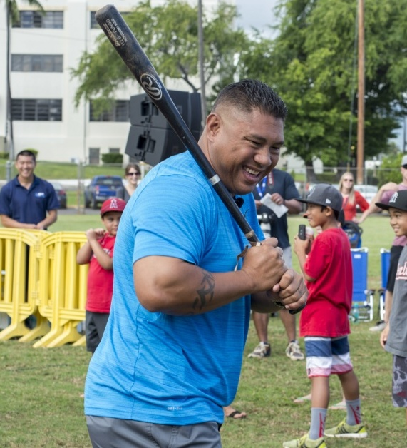 PEARL HARBOR (Dec. 5, 2015) Major League Baseball player Benny Agbayani teaches batting stances to military members and their families during MLB Players Clinic at Ward Field on Joint Base Pearl Harbor-Hickam. FOX Sports is scheduled to pay tribute to the nation's military while enlightening Americans about Pearl Harbor Day during the 74th anniversary.